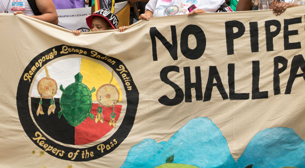 March for a Clean Energy Revolution Philadelphia (7/24/16)